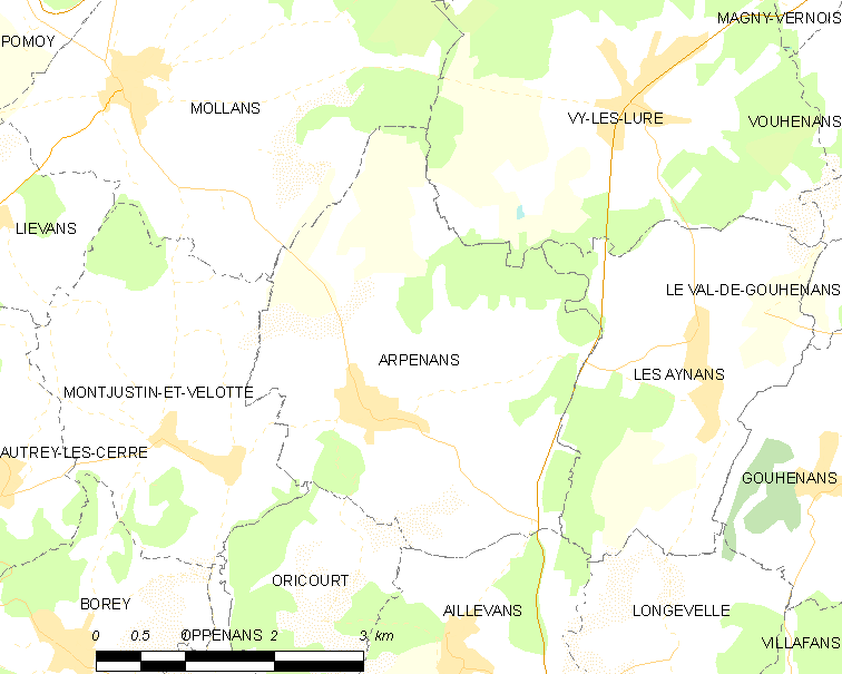 Map of French municipality